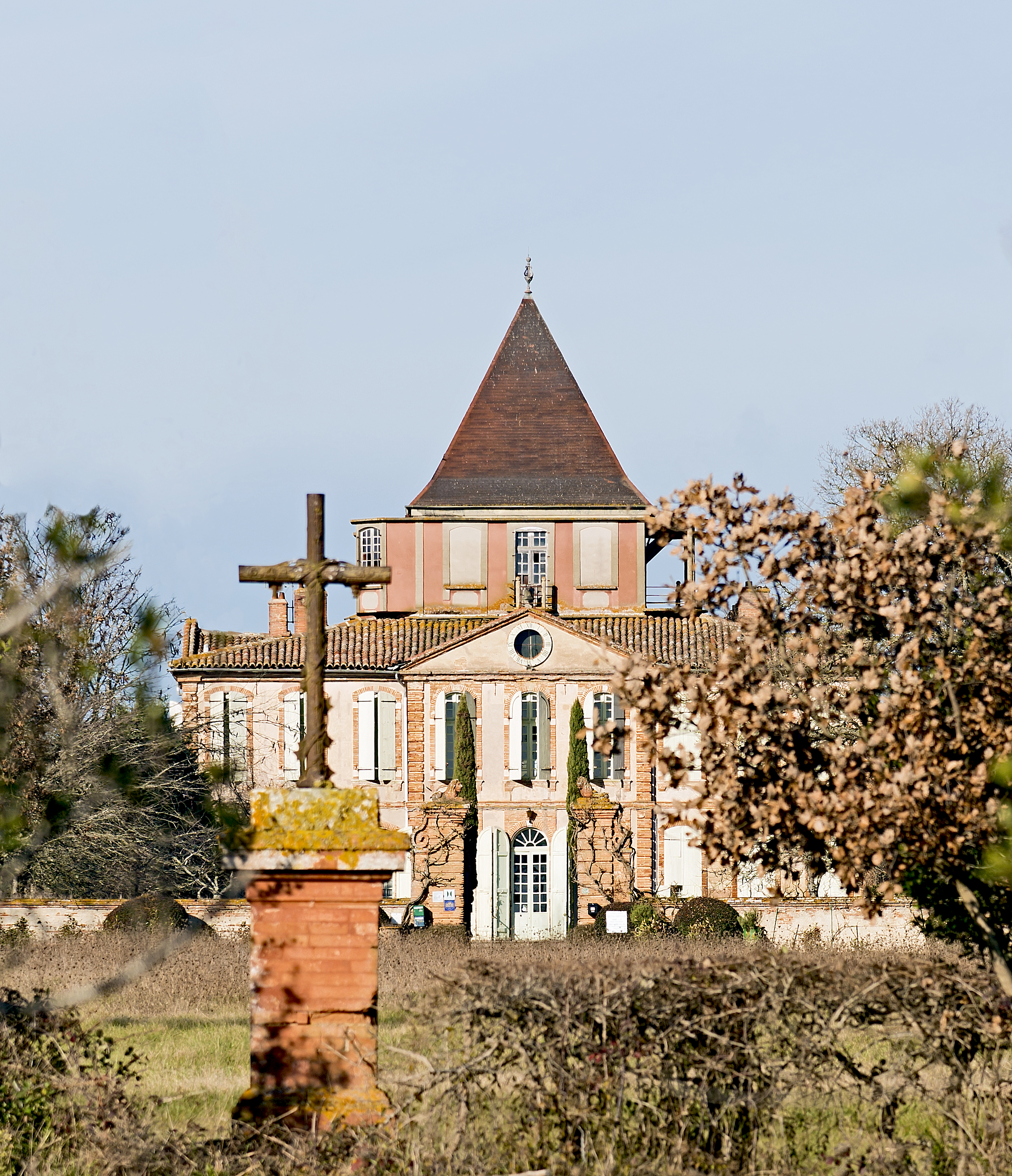 Larra, Haute-Garonne, France. Chateau de Larra, eighteenth.